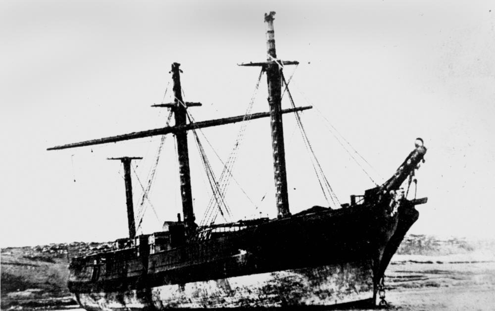 Great Britain (ship).